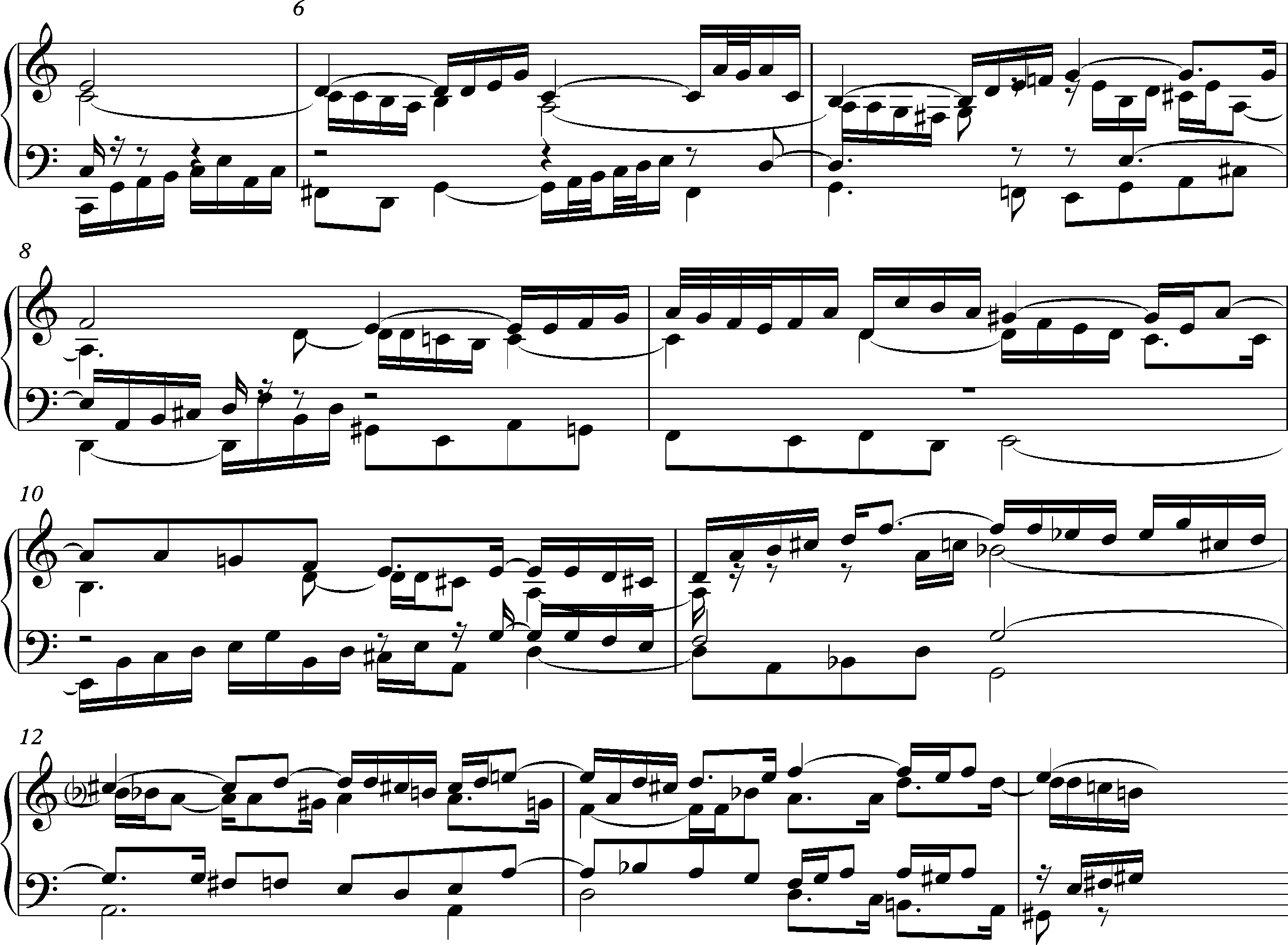 Prelude in C from Well-Tempered Clavier Book 2 bars 5-14